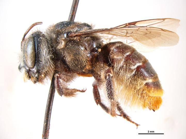 Lithurgus rubricatus female